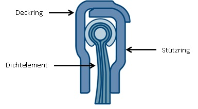 Brush Seal